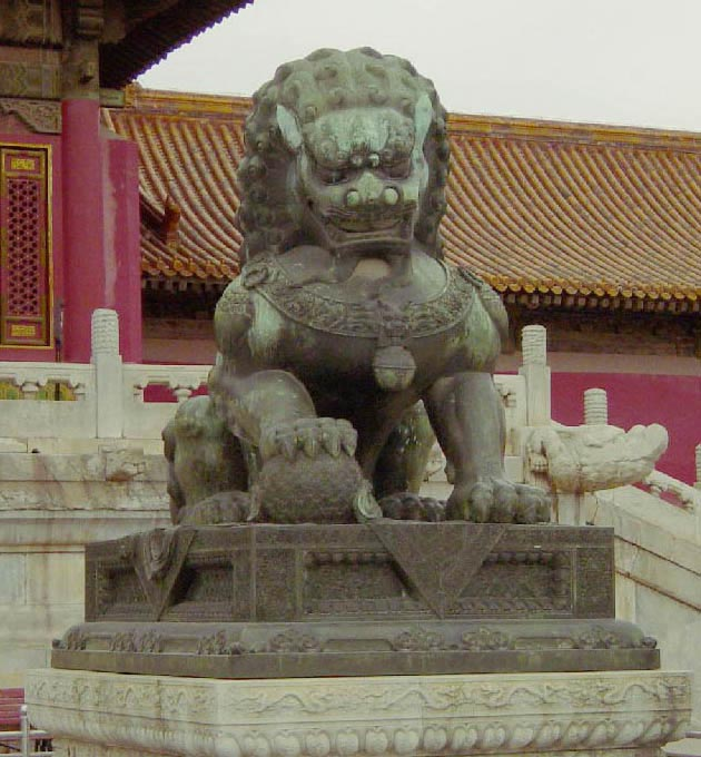 Chinese imperial guardian lion (male) at the Imperial Palace Museum, Bejing Taken, copyright, and uploaded by Leonard G.